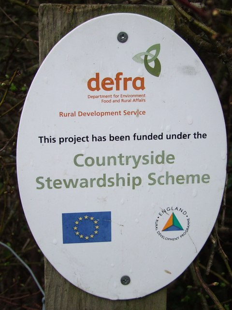 Countryside Stewardship Scheme sign. A Countryside Stewardship Scheme sign near a new stile a Cratfield Suffolk. For photos of one of the two stiles they funded see 726313